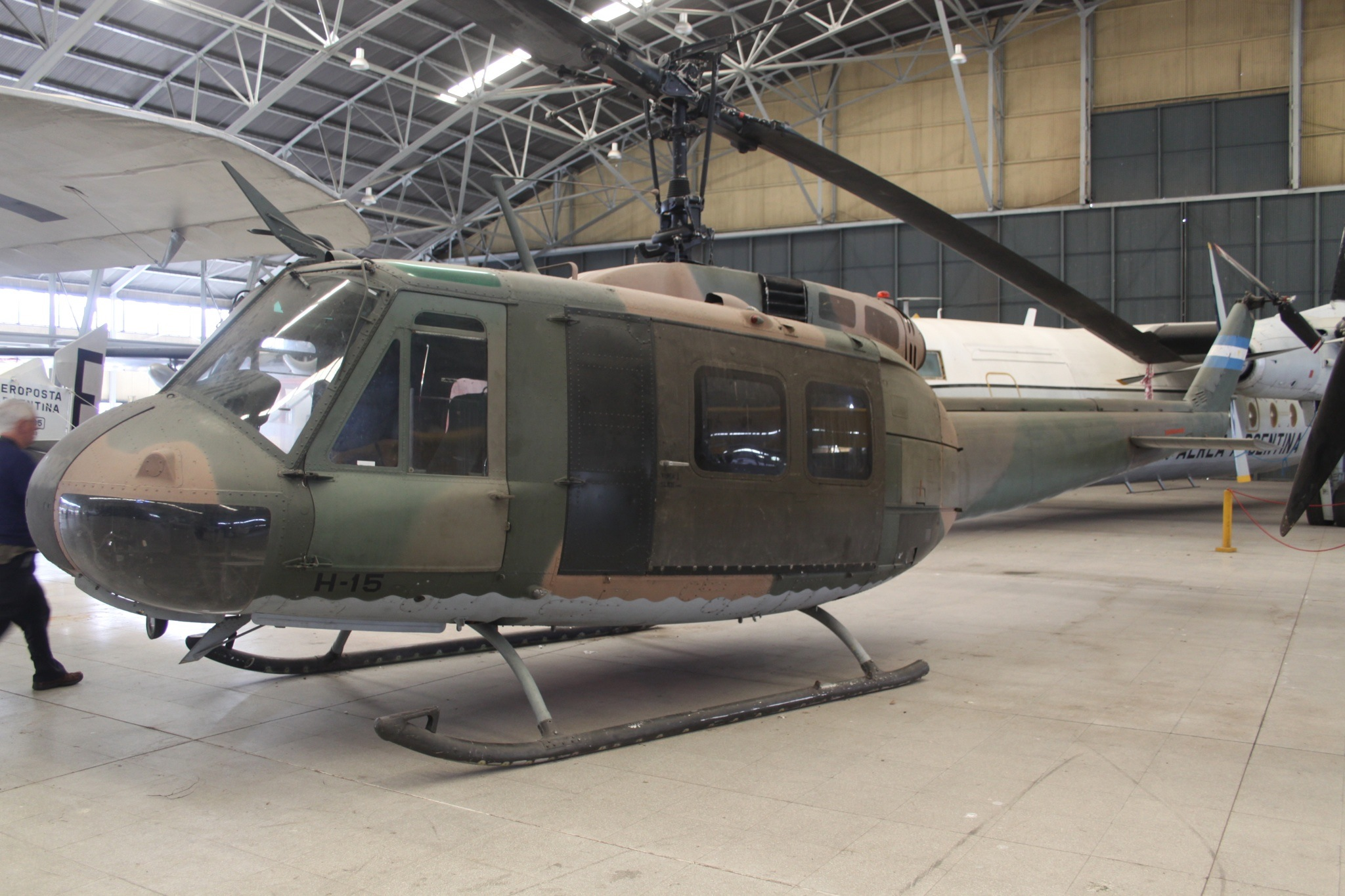 At Moron Museo Nactional De Aeronautica